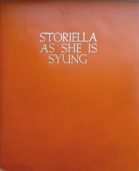 Book cover